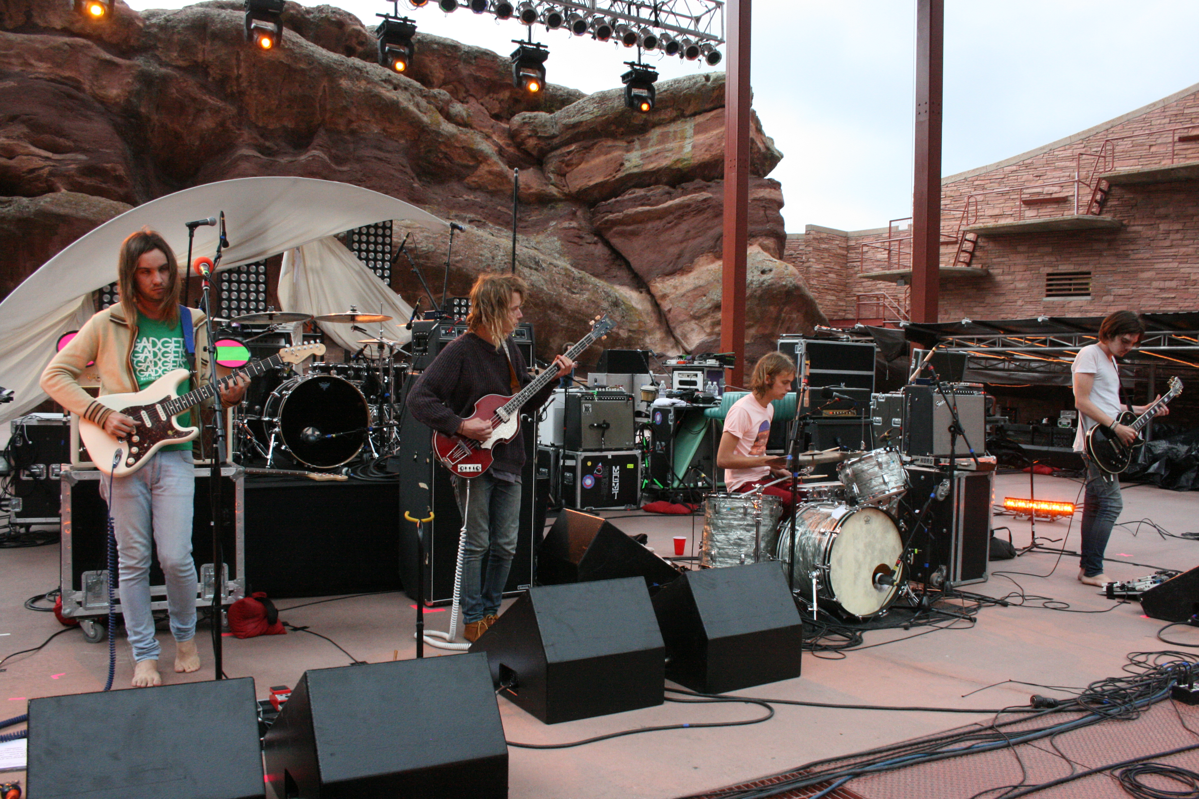 Tame Impala performing at Red Rocks Amphitheatre in Colorado on June 11, 2010